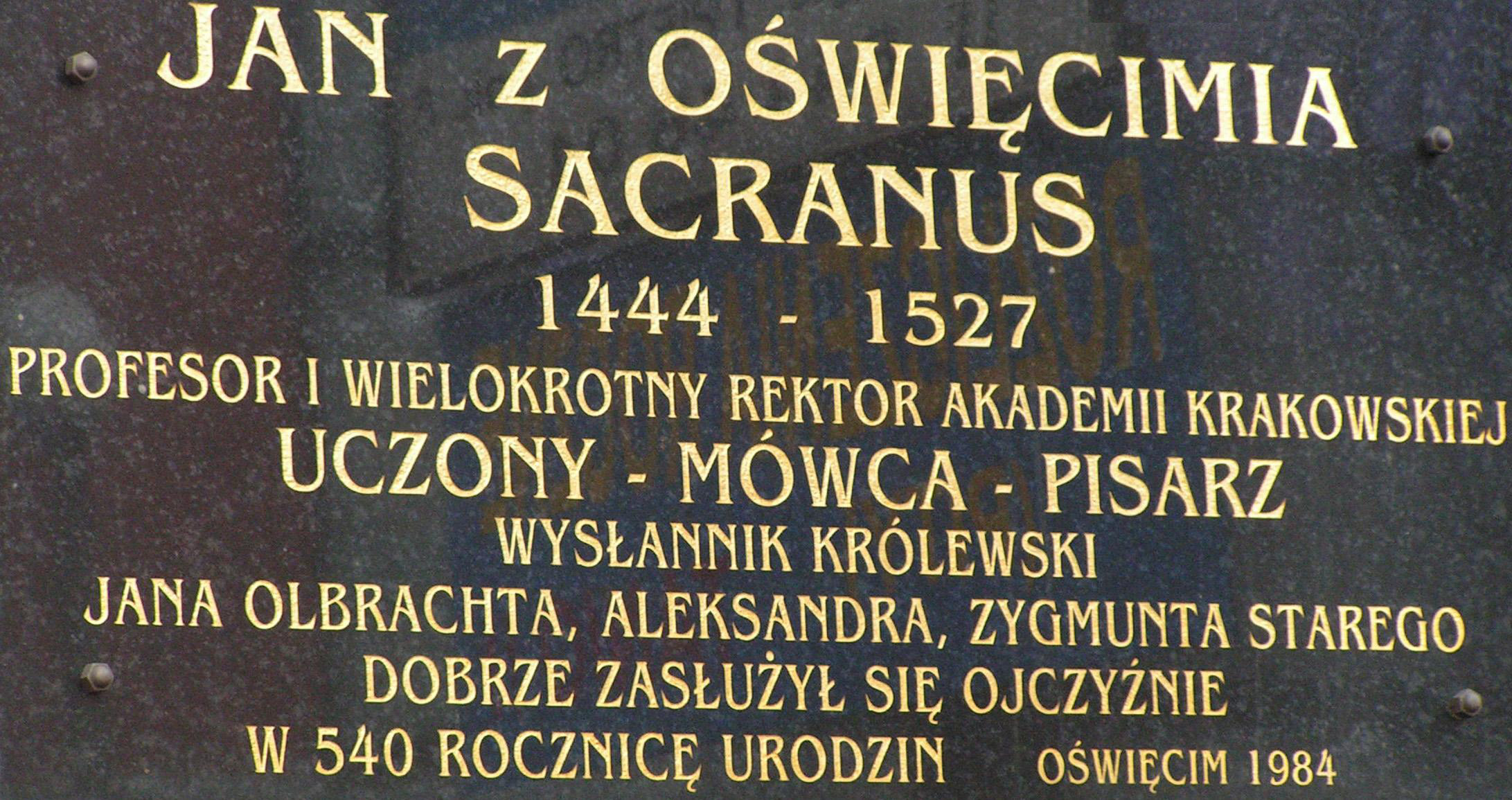 A plaque on the Market Square in Oświęcim dedicated to Jan from Oświęcim (Sacranus).